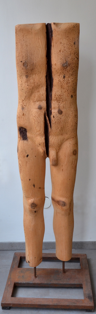 Sculpture by Ludmila Seefried-Matějková, Job, wood (2003)